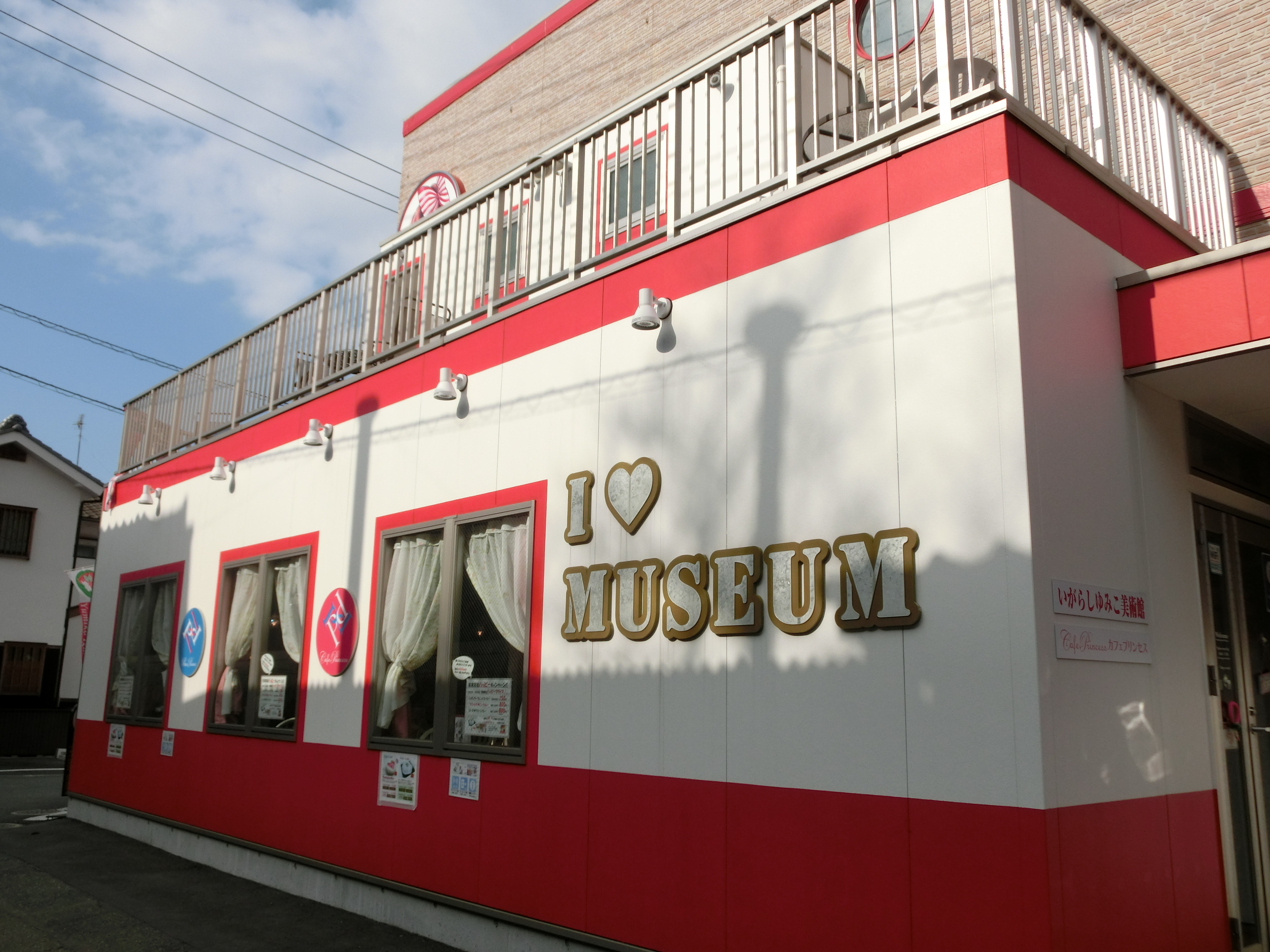 Yumiko Igarashi Museum